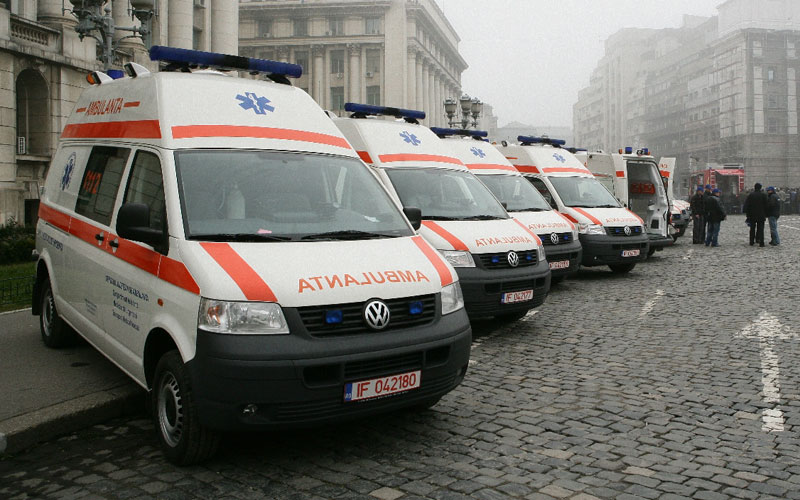 Volkswagen ambulances in Bucharest, with "AMBULANTA" in mirror writing ("ATNALUBMA").